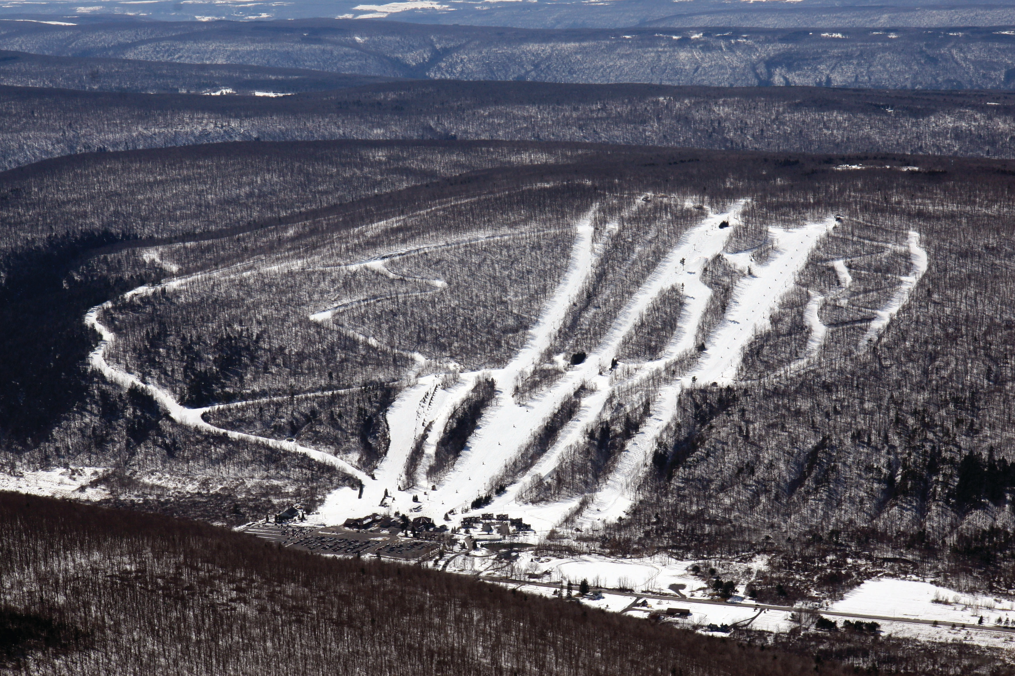 The views from the top of the mountain are magnificent, as are the paths down each of the 33 slopes and trails, including a peaceful 2-mile run. Even at night, 96% of the trails have lighting.